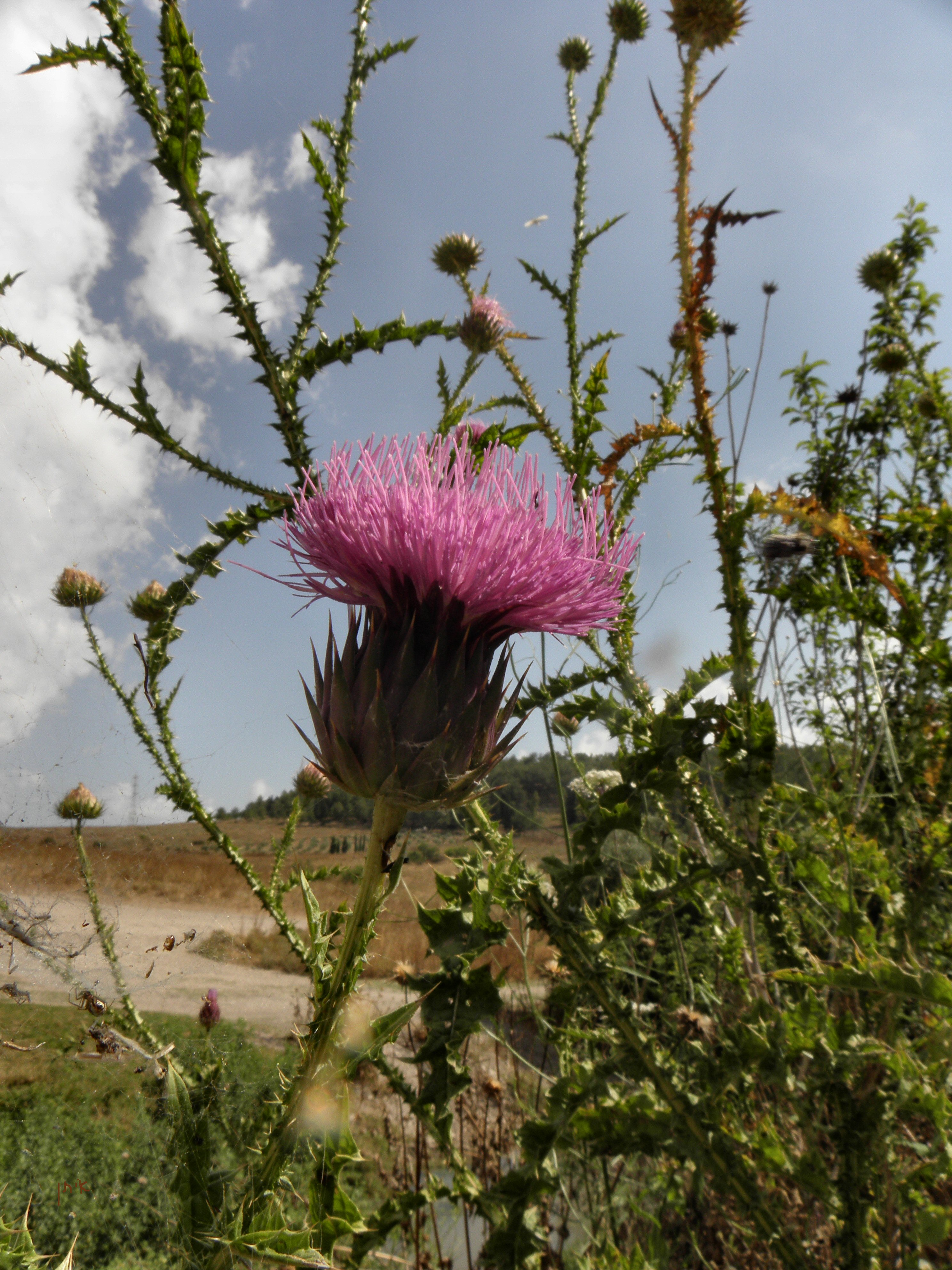 Onopordum cynarocephalum